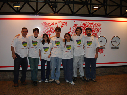 Equipe brasileira do IYPT 2005.